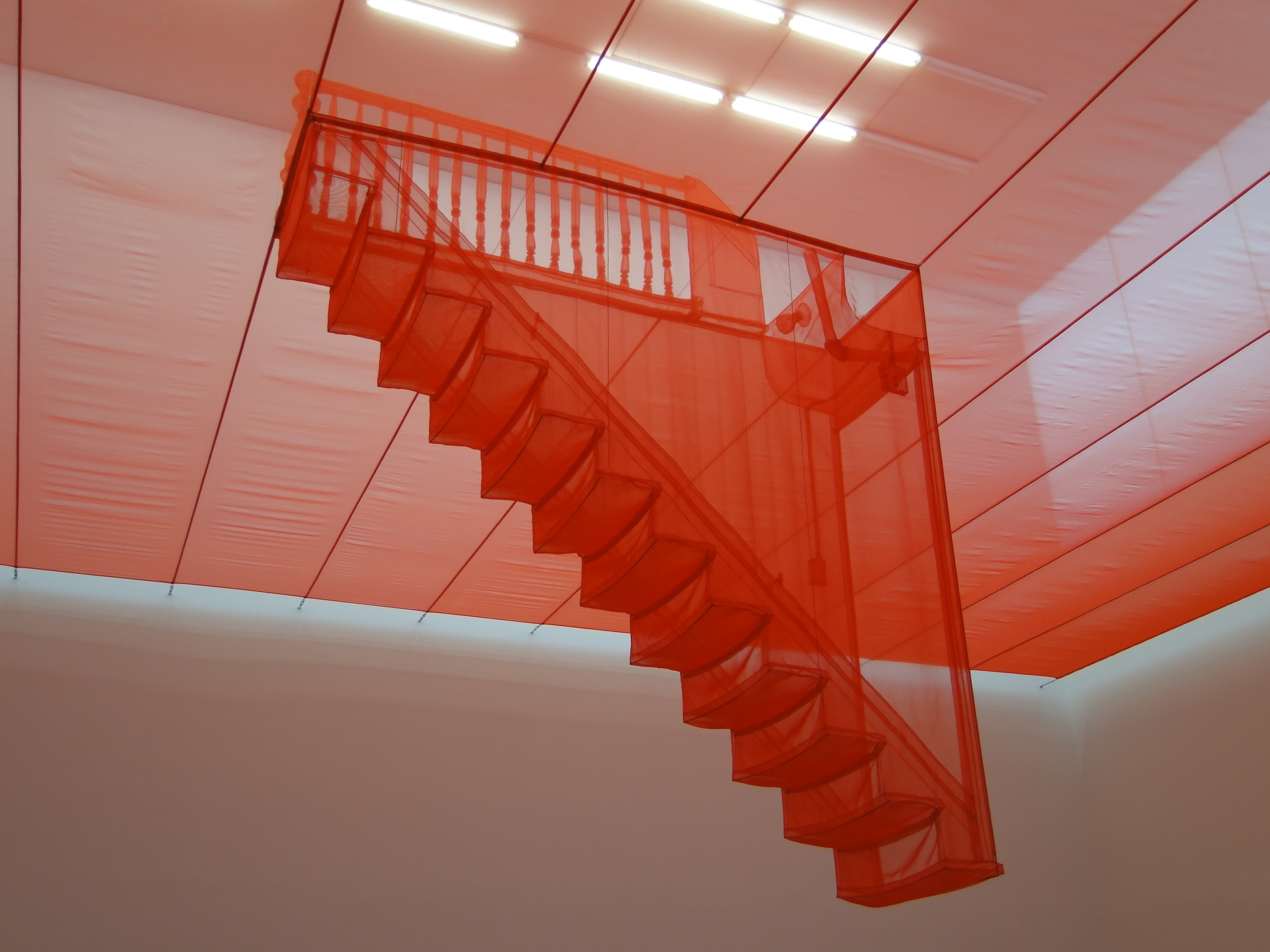 Staircase-III by Do-Ho Suh in the Tate Modern